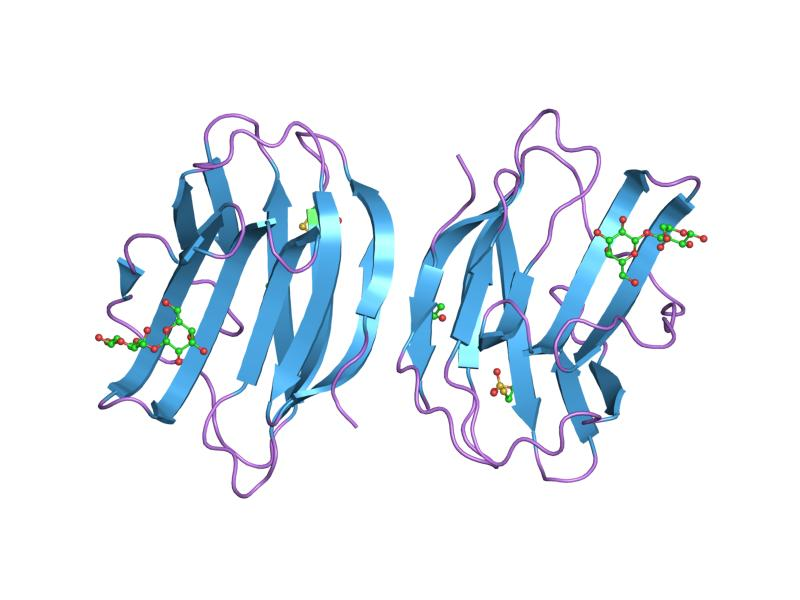 Cartoon representation of the molecular structure of protein registered with 1w6o code.